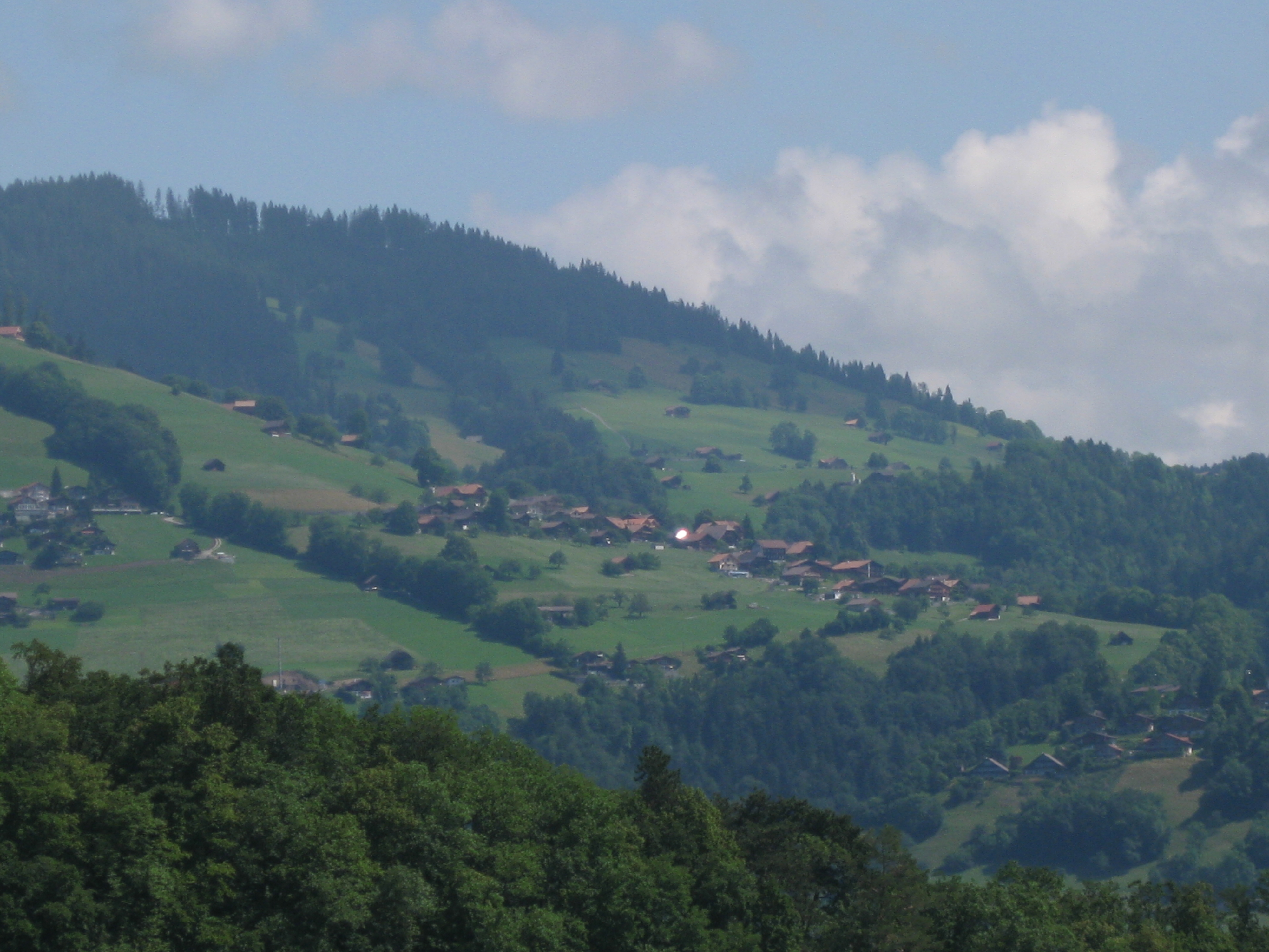 The small town of Gibelacher, close to Merligen.